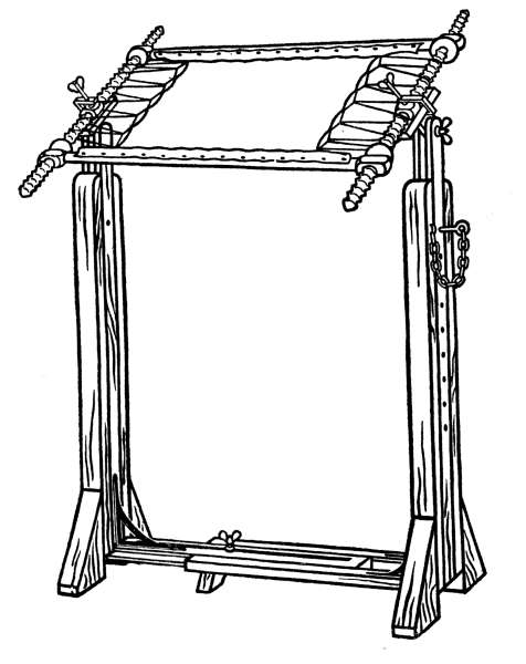 Drawing of a free-standing embroidery frame